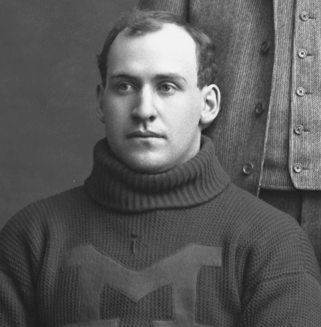 Photograph of William Baker